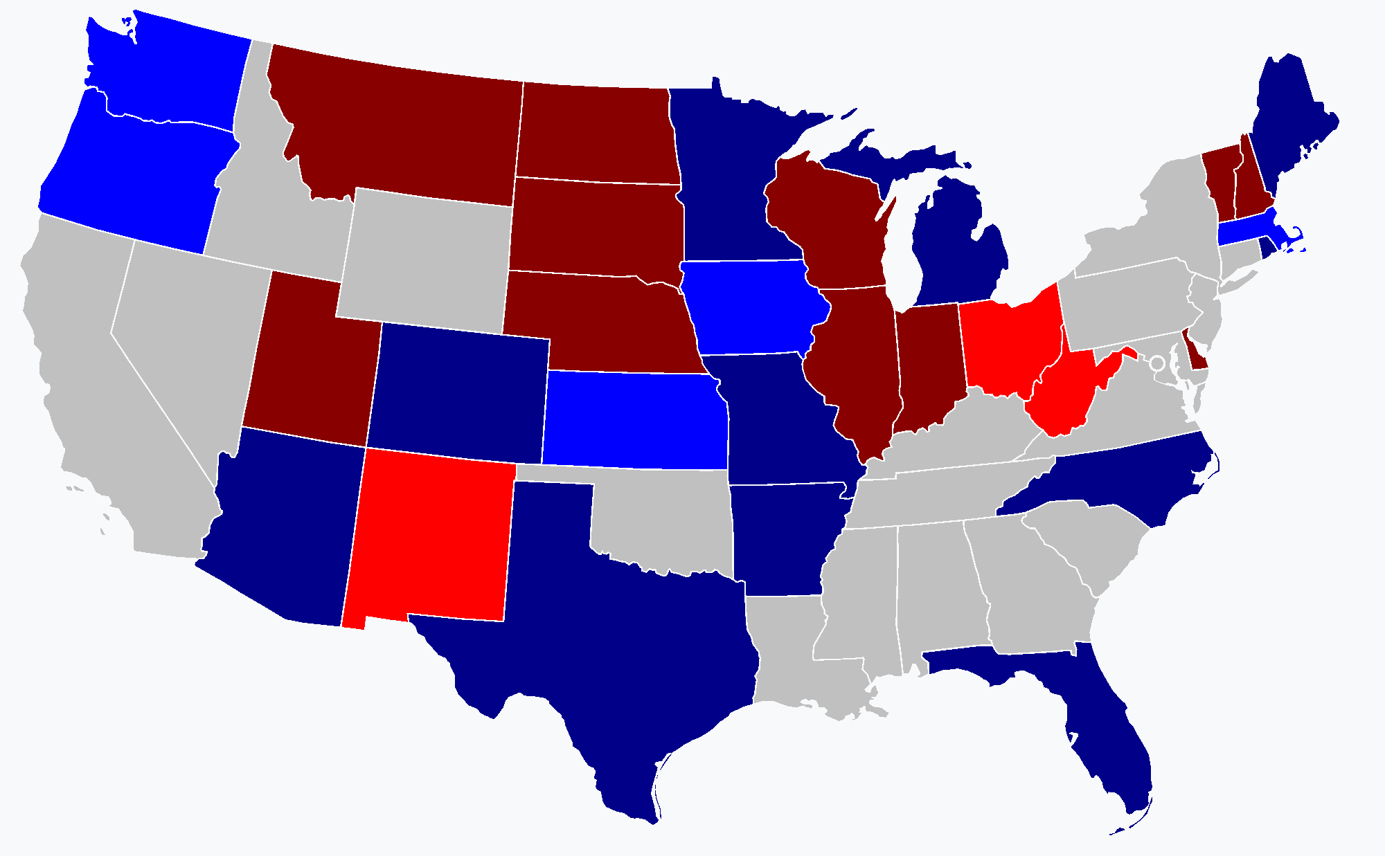 A map showing the results of the 1956 United States Gubernatorial elections